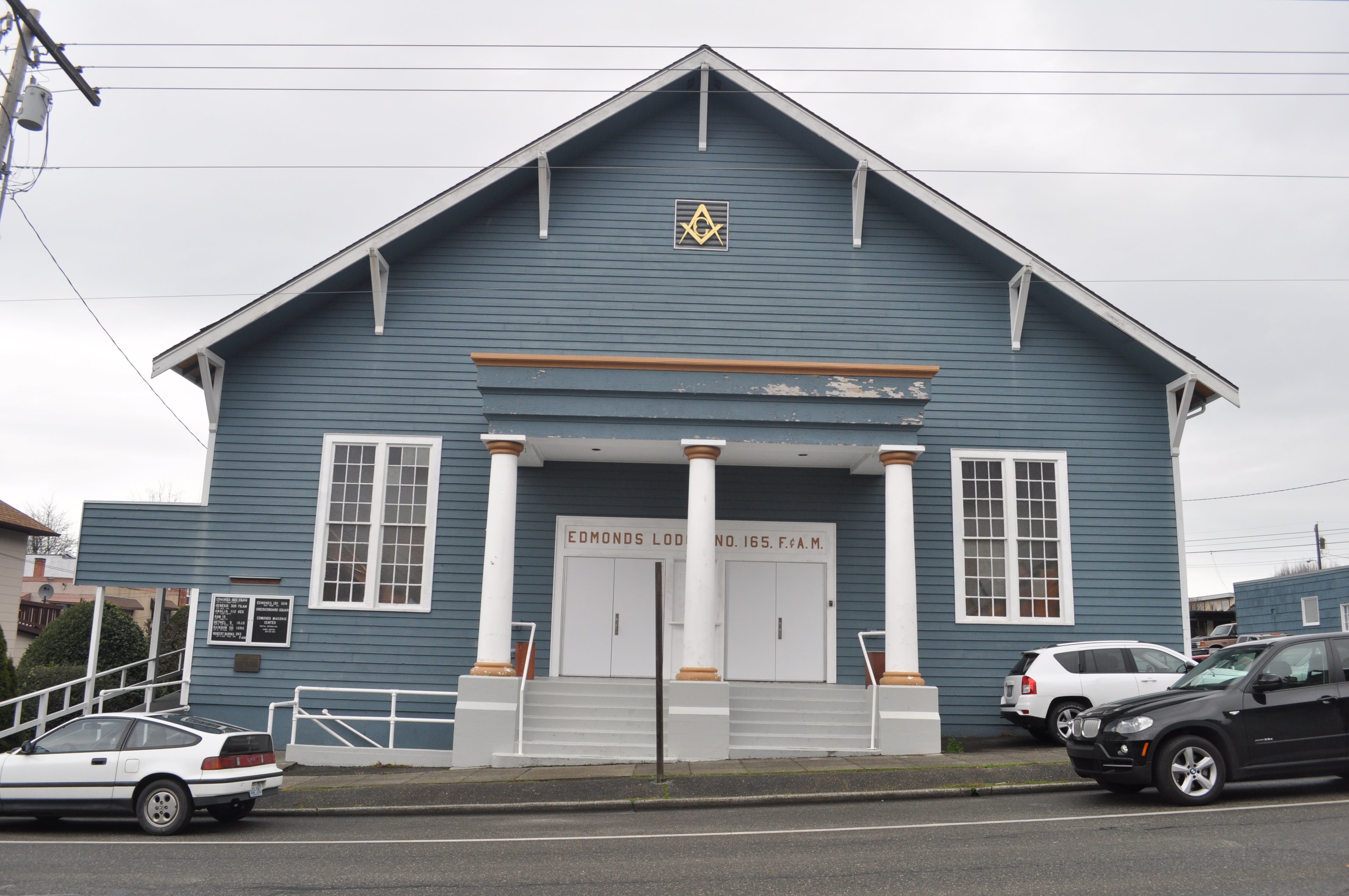 Masonic Lodge, Edmonds, Washington, USA. Built 1909 as the Edmonds Opera House, had a variety of uses (e.g. cinema, bowling alley) before being purchased by the Masons in 1944 and dedicated as a Masonic Temple in 1950.